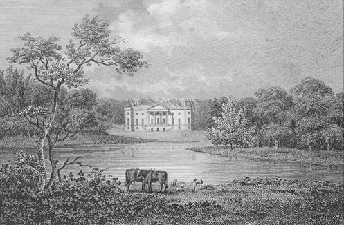 Foremarke Hall - Seat of Burdett Baronetts inc Sir F. Burdett - Derbyshire (England)